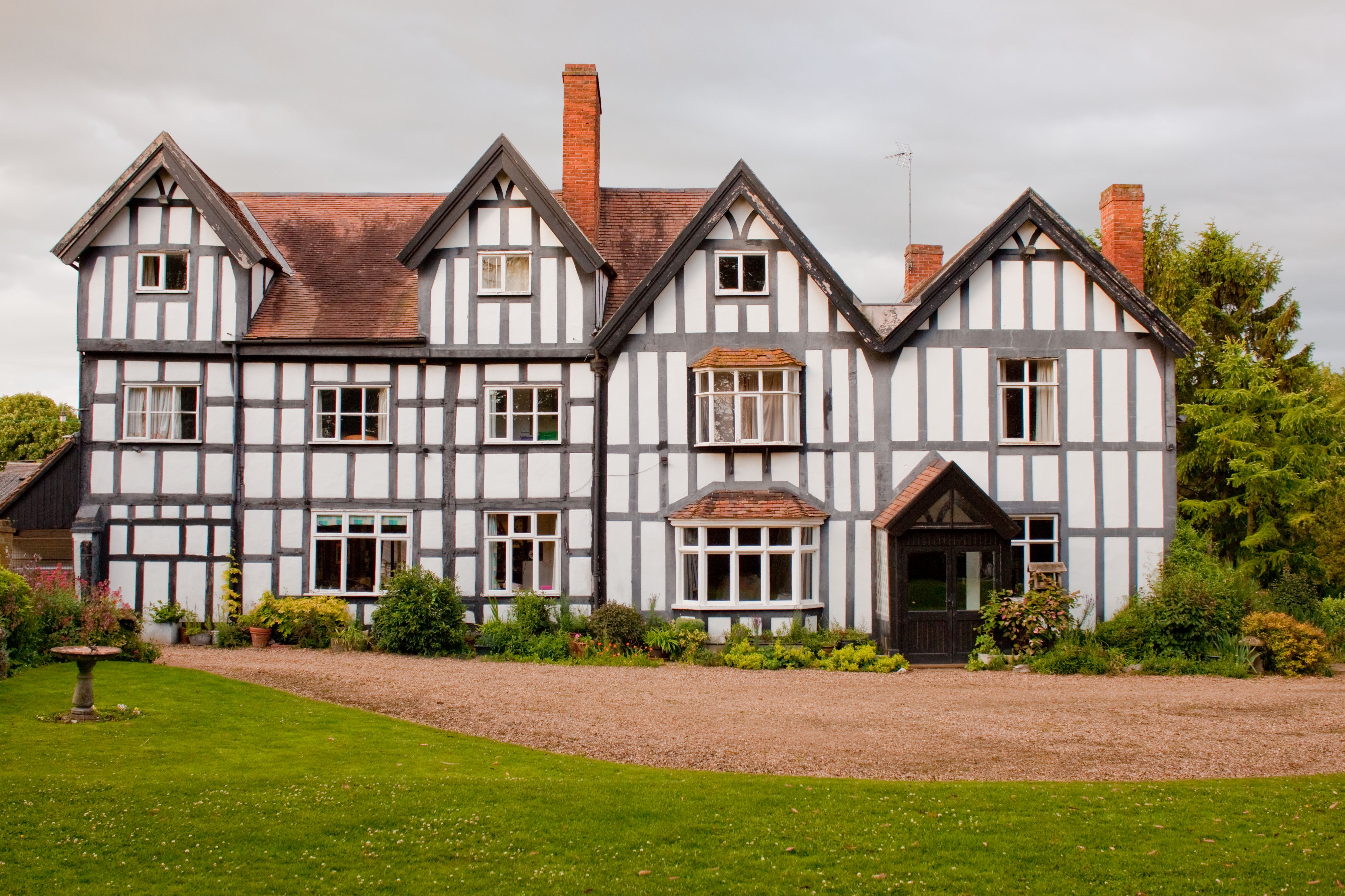 Bredicot Court Farmhouse is a Grade II-listed, built in the early 17th century. It has an H-shaped plan, and is timber-framed with brick infilling; there is an 18th-century brick wing.